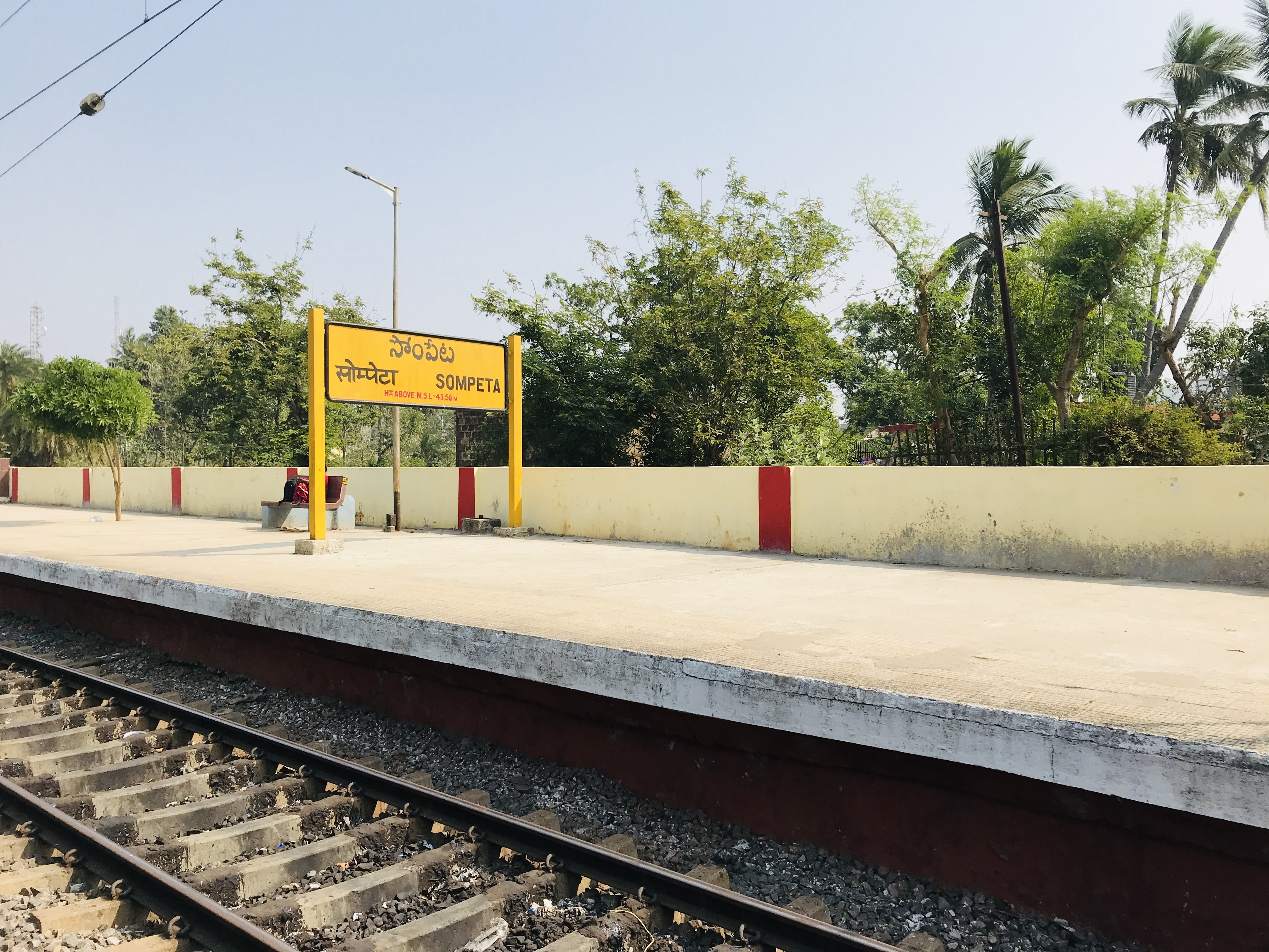 Sompeta railway station name board